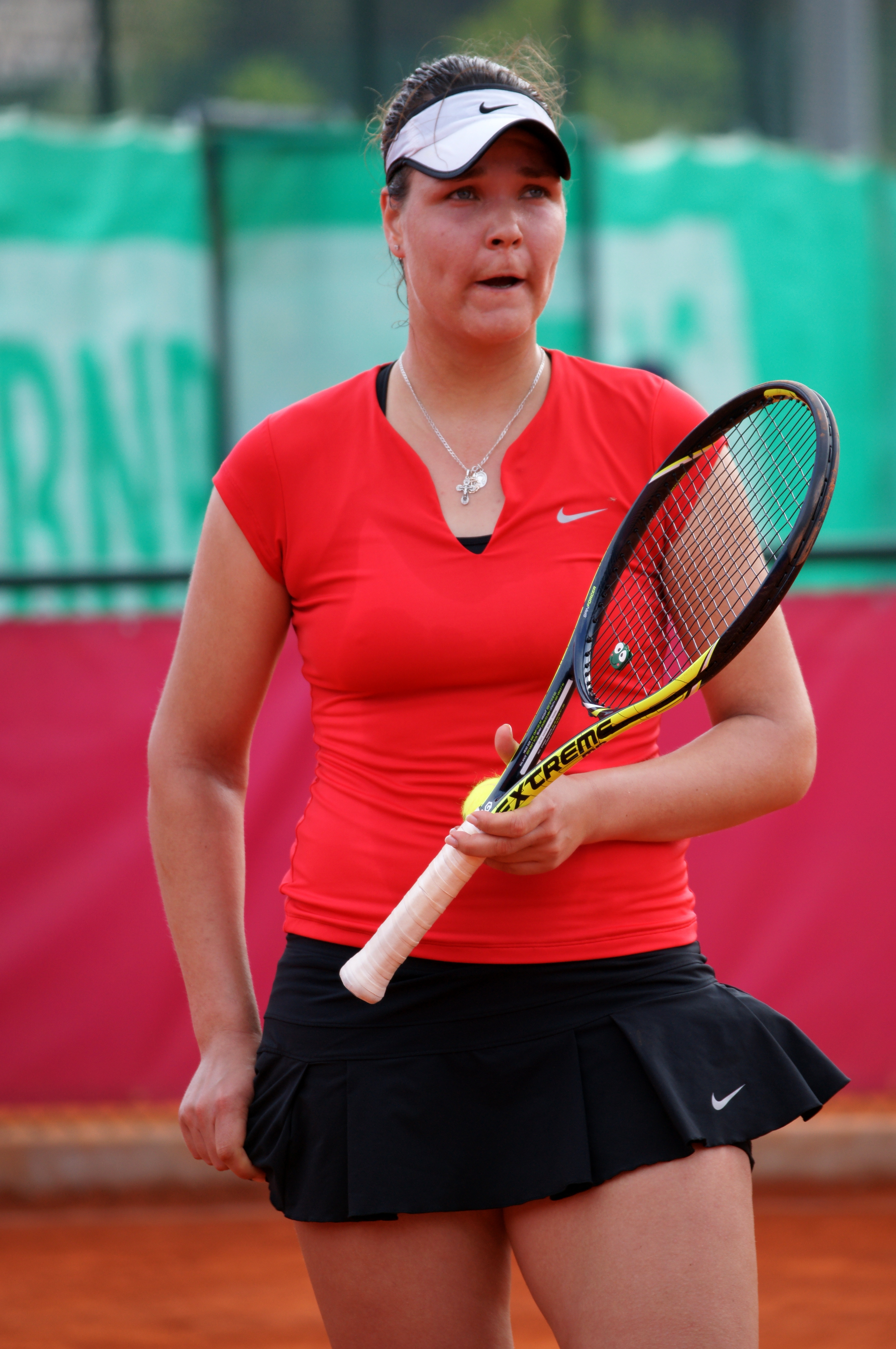 Lidziya Marozava, Open ITF Cagnes 2015.JPG